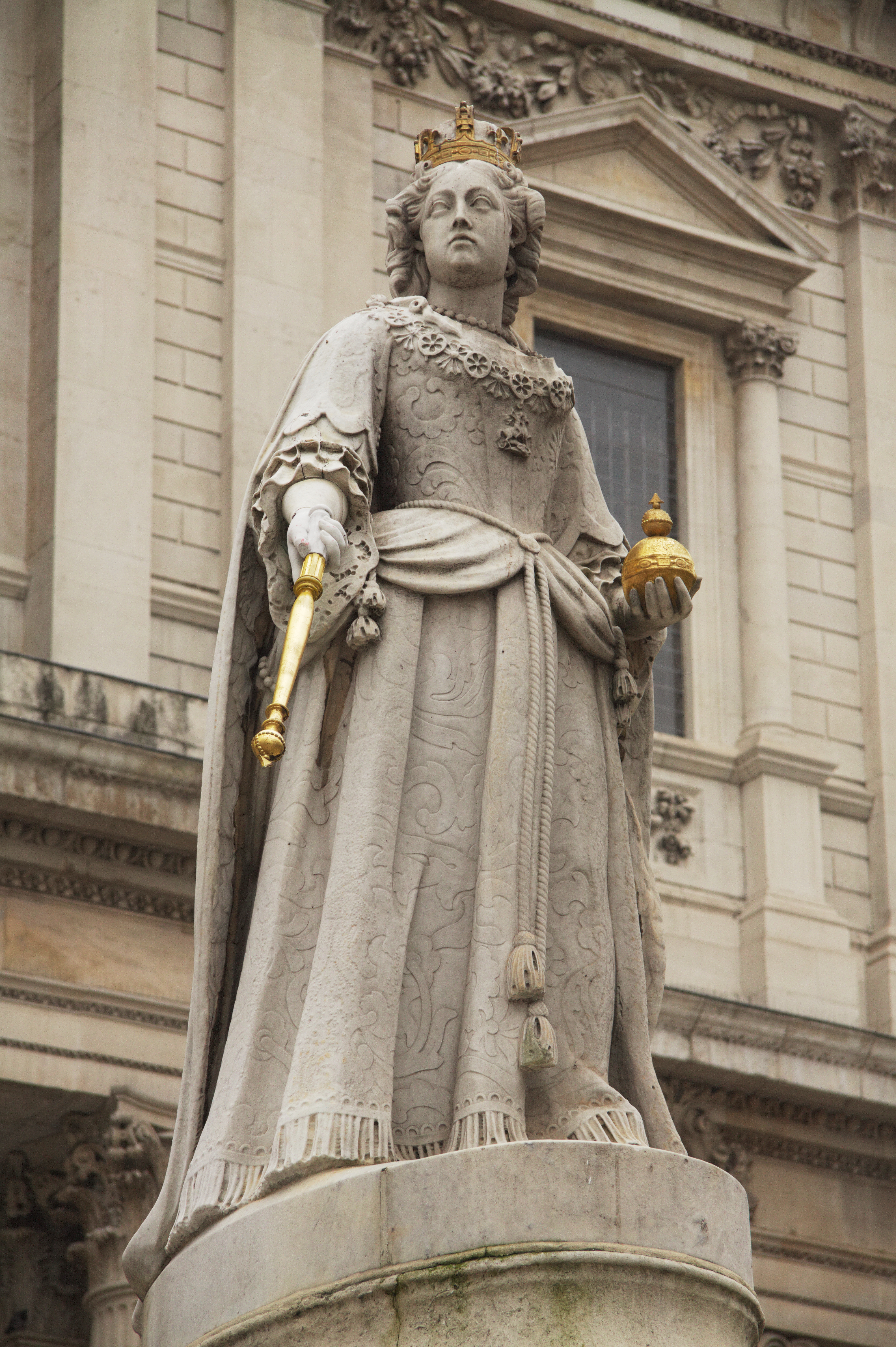 Detail of Anne of Great Britain statue before St. Paul's Cathedral in London, England, Great Britain - Google Maps - Google Earth